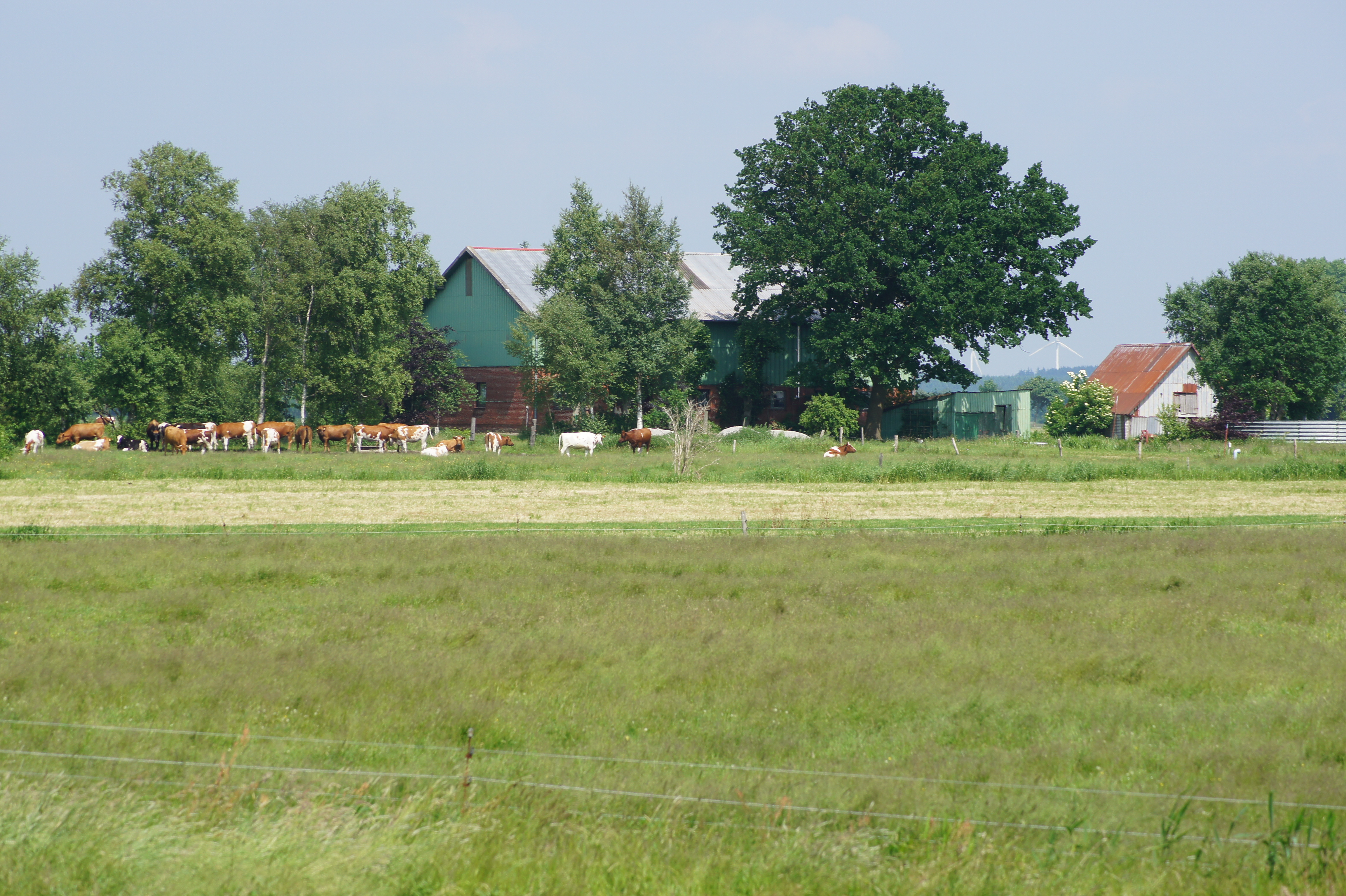 Neuendorf-Sachsenbande (Sachsenbande), en:: Farm